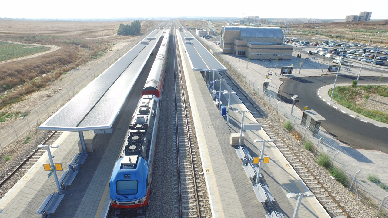 Aerial photo of Netivot, taken from above the train station